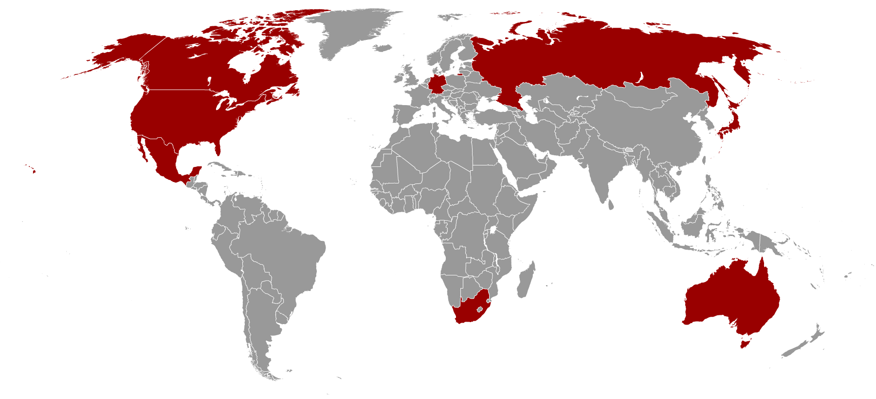 This is a map of countries in which the Resident Evil real film series was filmed